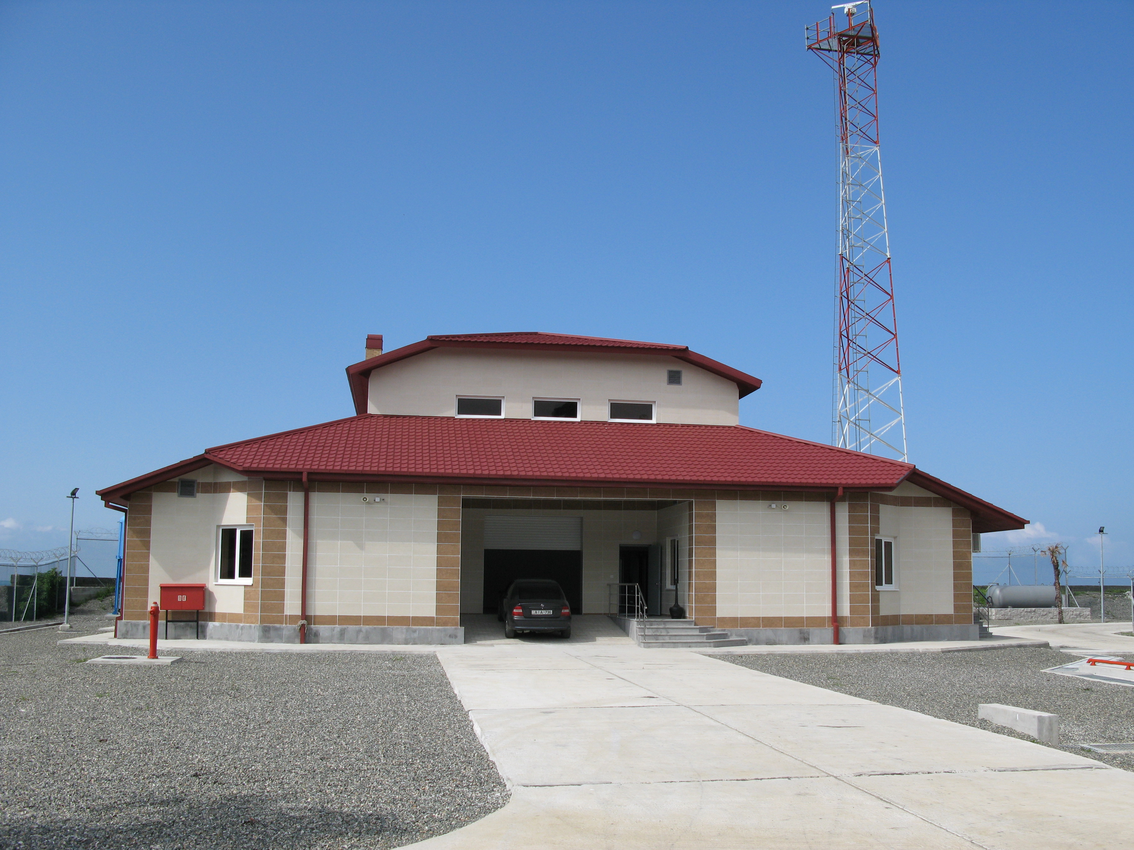 The Chakvi radar station, half-way up the Black Sea coast of Georgia, was constructed through oversight of the U.S. Army Corps of Engineers Europe District. The $600,000 facility, which will serve both the commercial and military port, was opened in July 2007.